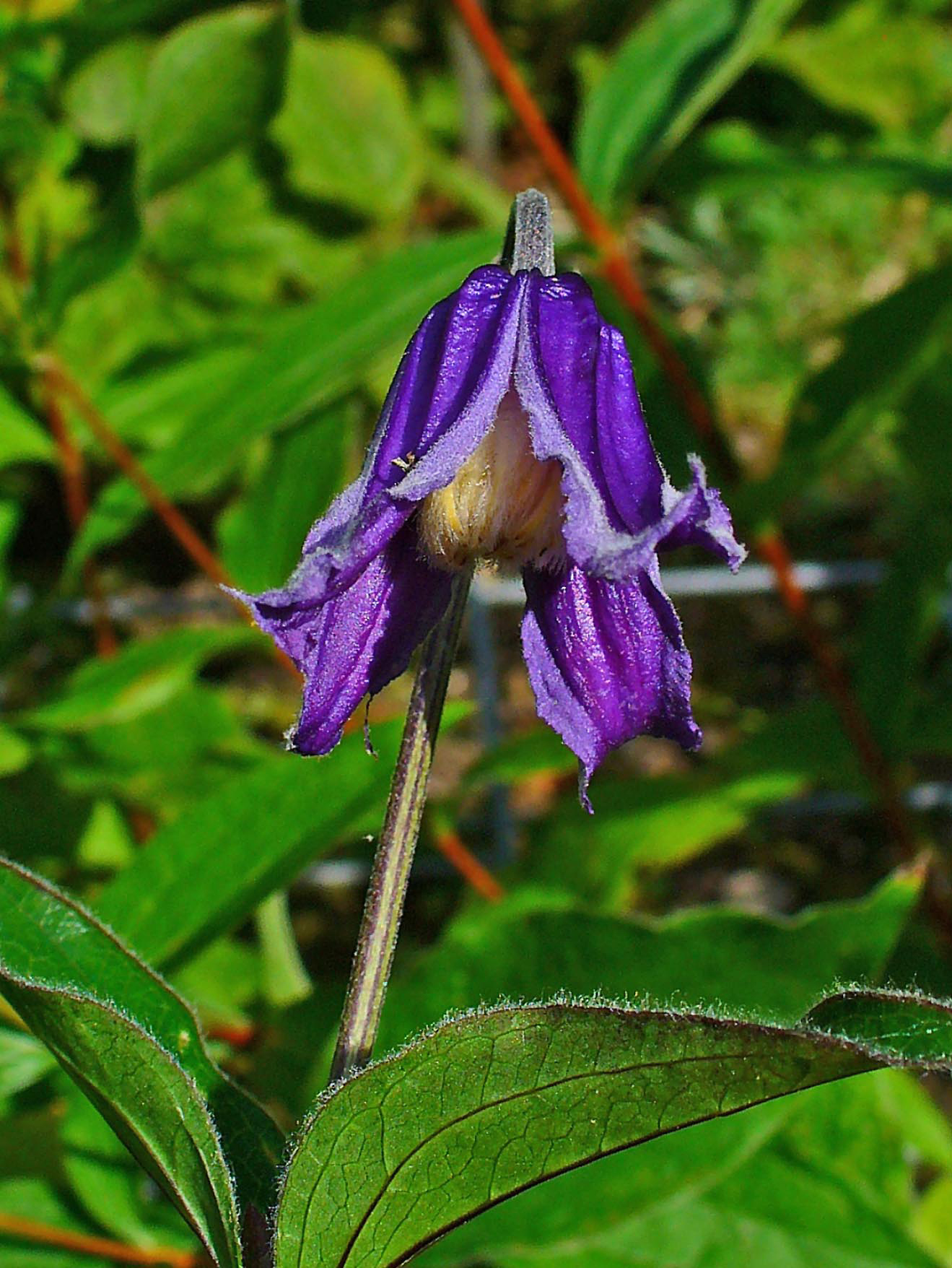 Clematis integrifolia, Ranunculaceae, Solitary Blue Clematis, flower; Botanical Garden KIT, Karlsruhe, Germany.